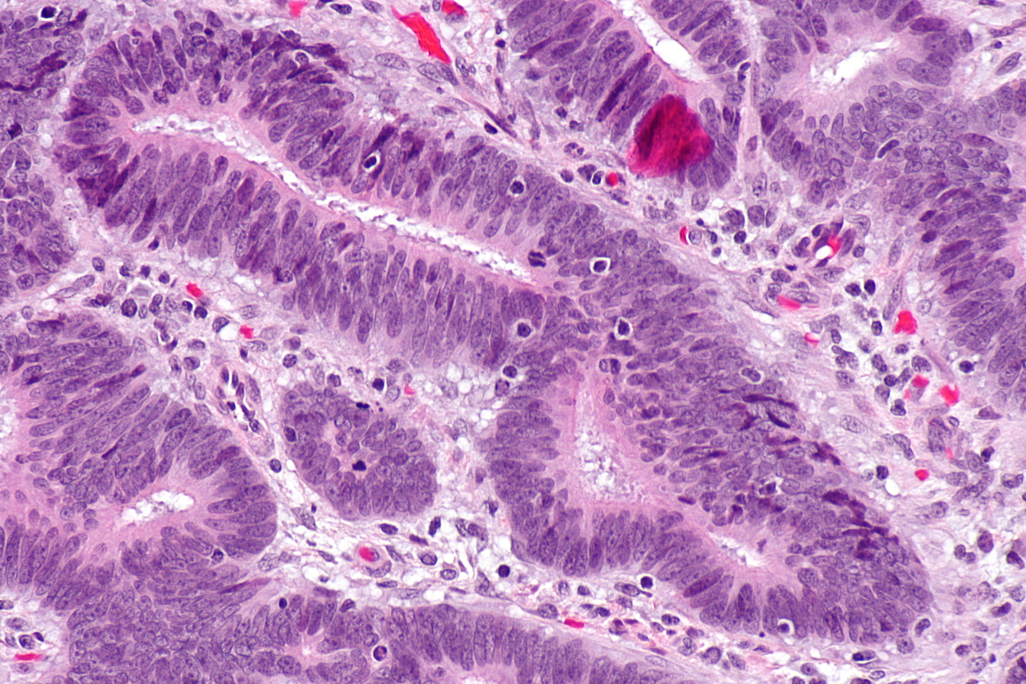 Micrograph showing tumour-infiltrating lymphocytes in colorectal carcinoma. H&E stain. Tumour-infiltrating lymphocytes (TILs) are suggestive of microsatellite instability (MSI), and may be seen in Lynch syndrome. Related images TILs - high mag. TILs - very high mag. TILs - extremely high mag. TILs - high mag. TILs - very high mag.